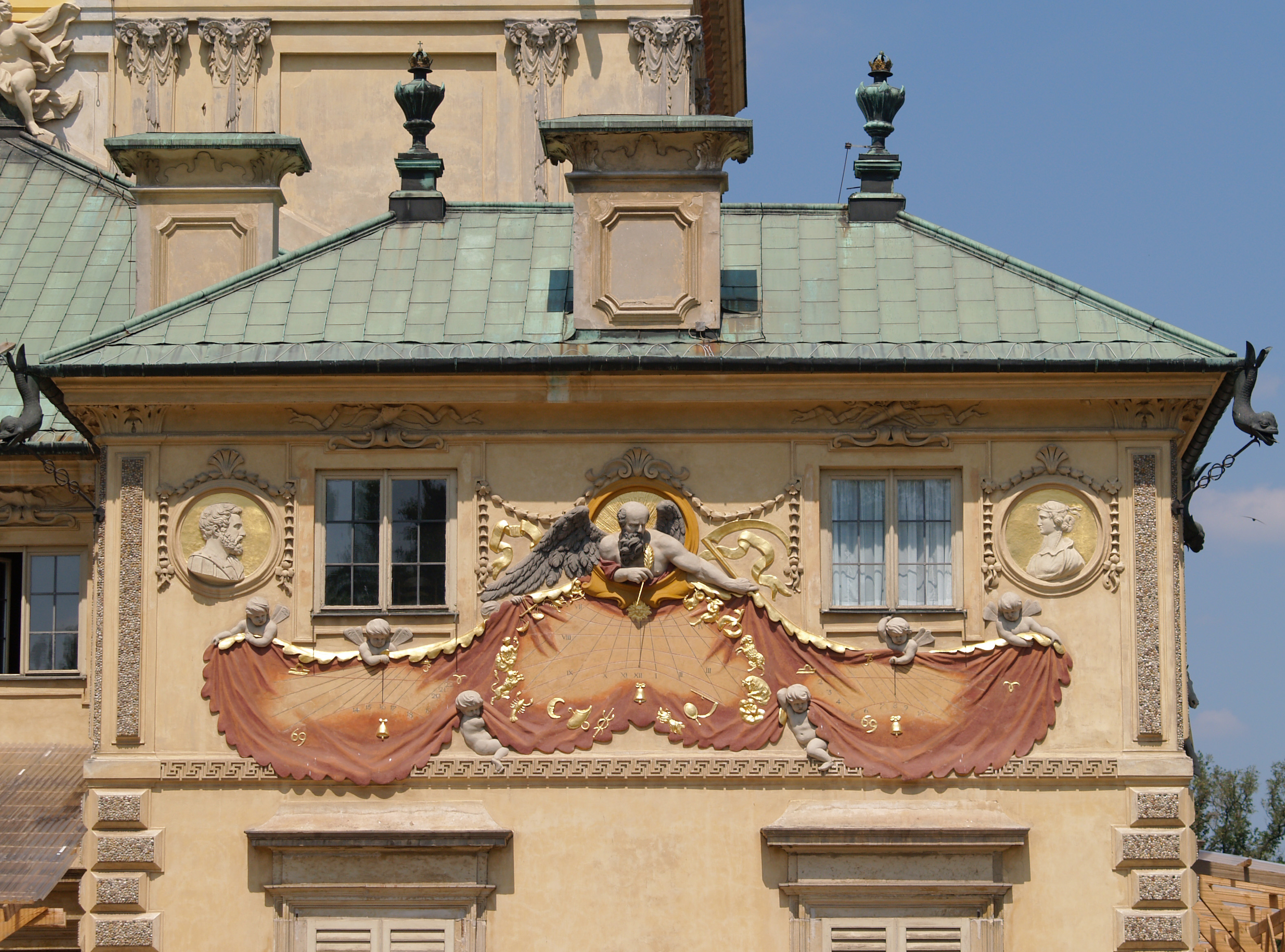 Sundial at the park side of Wilanow Palace at Warsaw, Poland